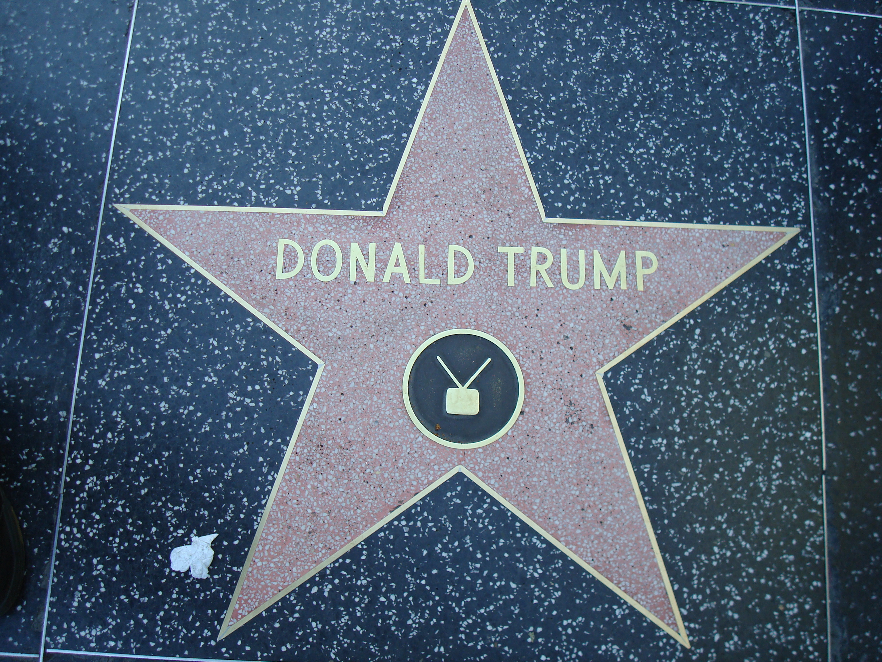 This photo depicts Donald Trump's star on the Hollywood Walk of Fame.